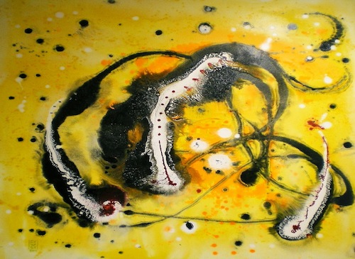 Abstract painting by Christian W. Staudinger, artist in Berlin